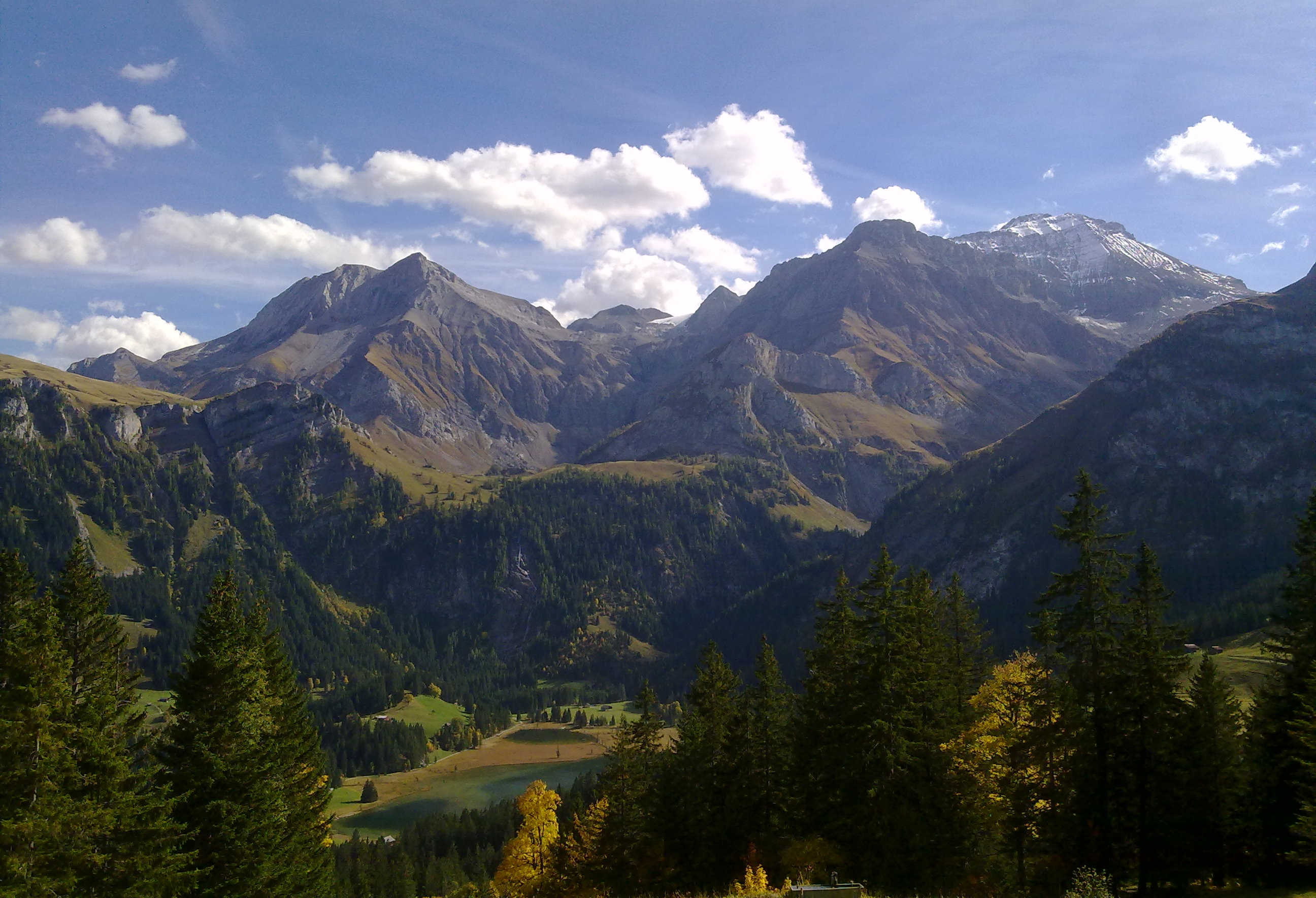 Lauenental